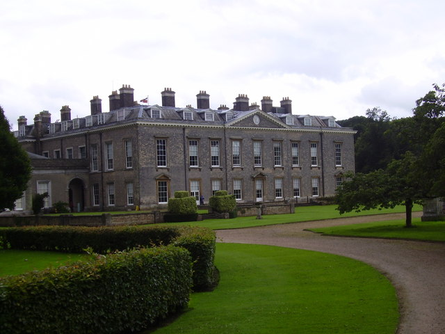 Althorp House, Northamptonshire